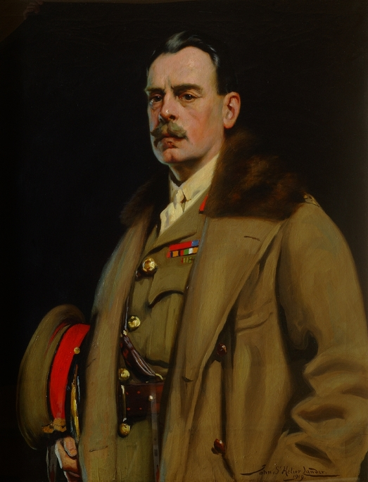 A 1919 portrait of Field Marshal Philip Walhouse Chetwode, 1st Baron Chetwode, 7th Baronet of Oakley, GCB OM GCSI KCMG DSO (21 September 1869 – 6 July 1950), a British Army officer who took part in the Siege of Ladysmith (December 1899), the First Battle of Ypres (October-November 1914) and the Battle of Jerusalem (November 1917). After the War he served as Adjutant-General to the Forces and then Commander in Chief Aldershot Command. He went on to be Chief of the General Staff in India in 1928 and C-in-C India in 1930 where he was involved in the modernisation and "Indianisation" of the British Indian Army.